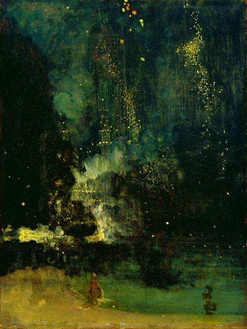 Nocturne in Black and Gold – The Falling Rocket